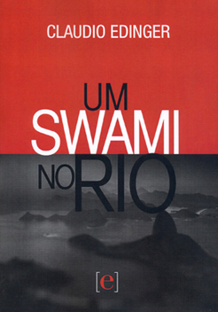 Livro Um Swami no Rio